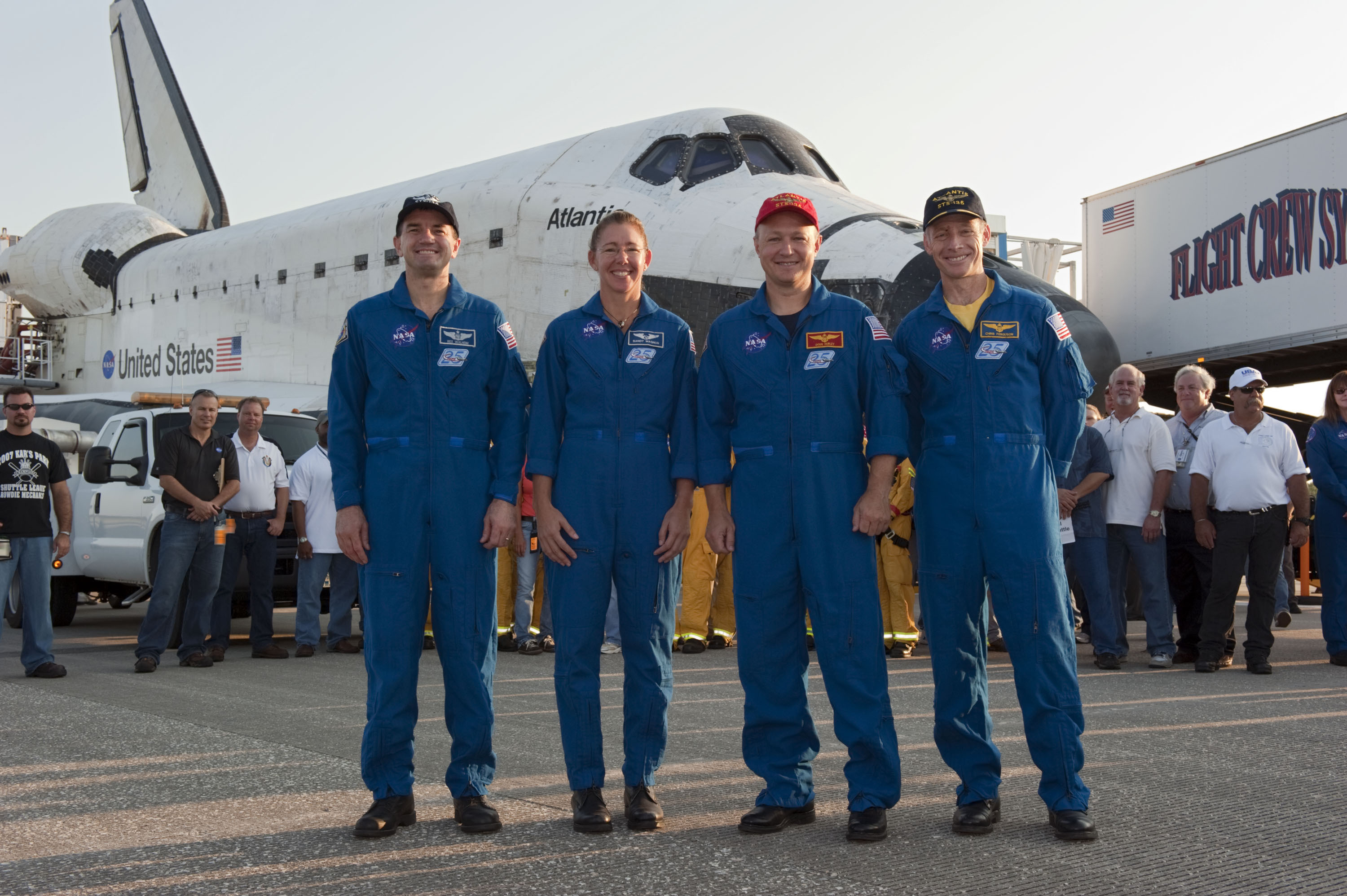 CAPE CANAVERAL, Fla. – The final four astronauts of NASA's Space Shuttle Program stand proudly in front of space shuttle Atlantis, the remarkable spacecraft that took them on the STS-135 mission to the International Space Station. From left, are Mission Specialists Rex Walheim and Sandy Magnus, Pilot Doug Hurley, and Commander Chris Ferguson. The crew returned to Earth on the Shuttle Landing Facility's Runway 15 at NASA's Kennedy Space Center in Florida at 5:57 a.m. EDT. Atlantis' final return from space completed a 13-day, 5.2-million-mile journey to the International Space Station. STS-135 delivered spare parts, equipment and supplies in the Raffaello multi-purpose logistics module that will sustain station operations for the next year. STS-135 was the 33rd and final flight for Atlantis, which has spent 307 days in space, orbited Earth 4,848 times and traveled 125,935,769 miles. For more information visit